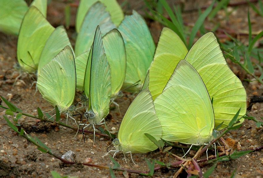 Common Emigrant or Lemon Emigrant Catopsilia pomona (syn. Catopsila crocale) in Narsapur, Medak district, Andhra Pradesh, India.